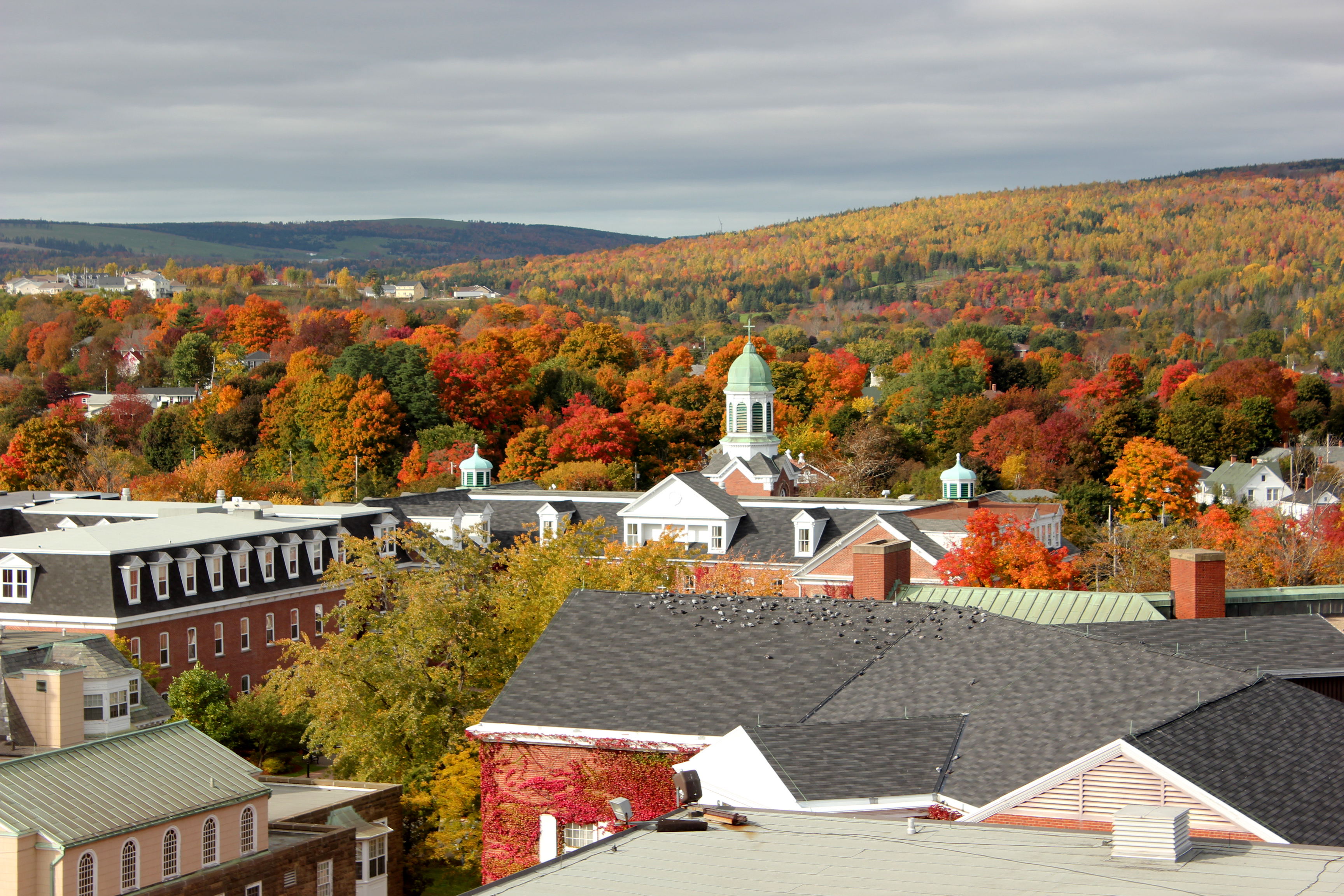 View on Xavier Hall from Nicholson Tower, St. Francis Xavier University, Antigonish, Nova Scotia, Canada.